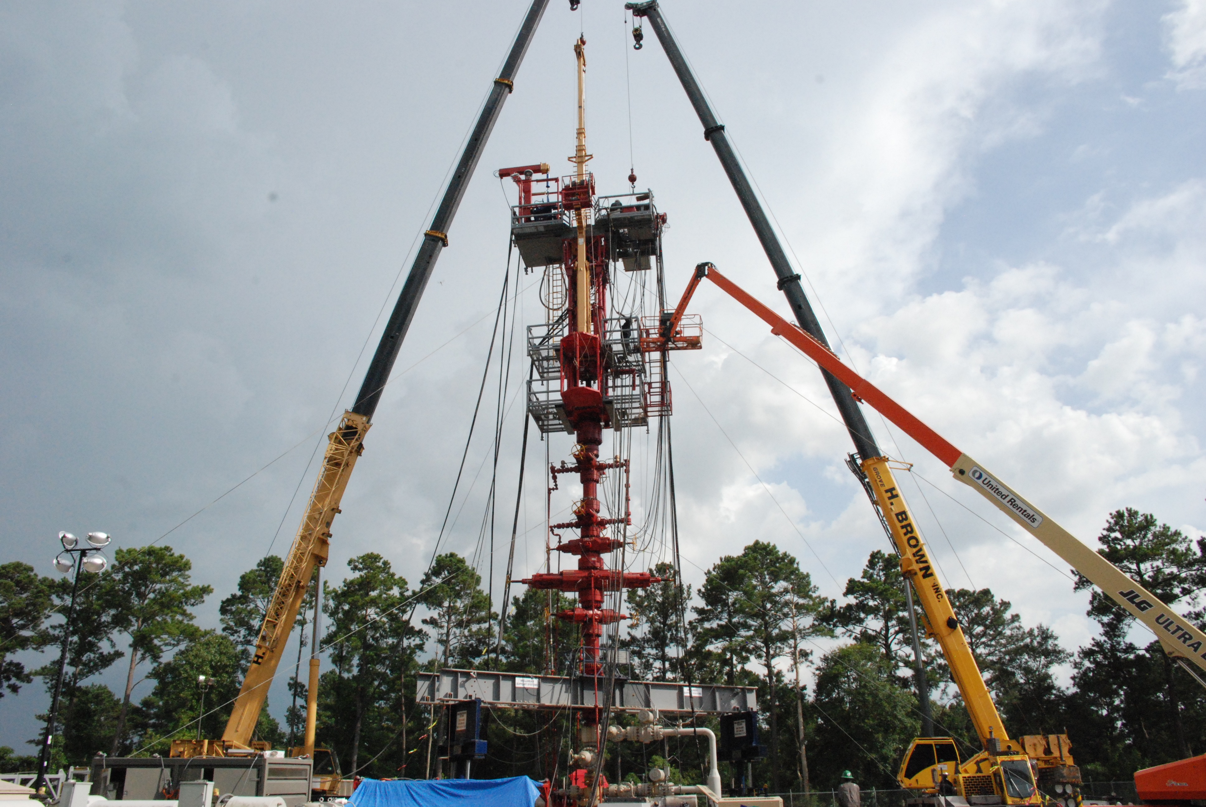 SBS 340 Unit Snubbing 9-5/8" Casing.